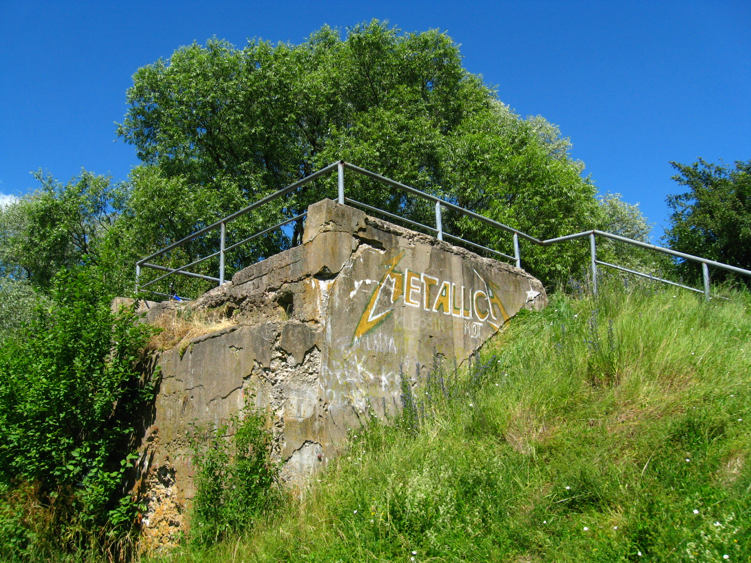 Abutment of the torn down bridge over Narew river near Kruszewo village; built in 1903; burnt down during World War I; rebuilt in 1928; burnt down again in 1939 during World War II by retreating polish soldiers; it was 365m (400yd) long; now overlook on Narew's river pool